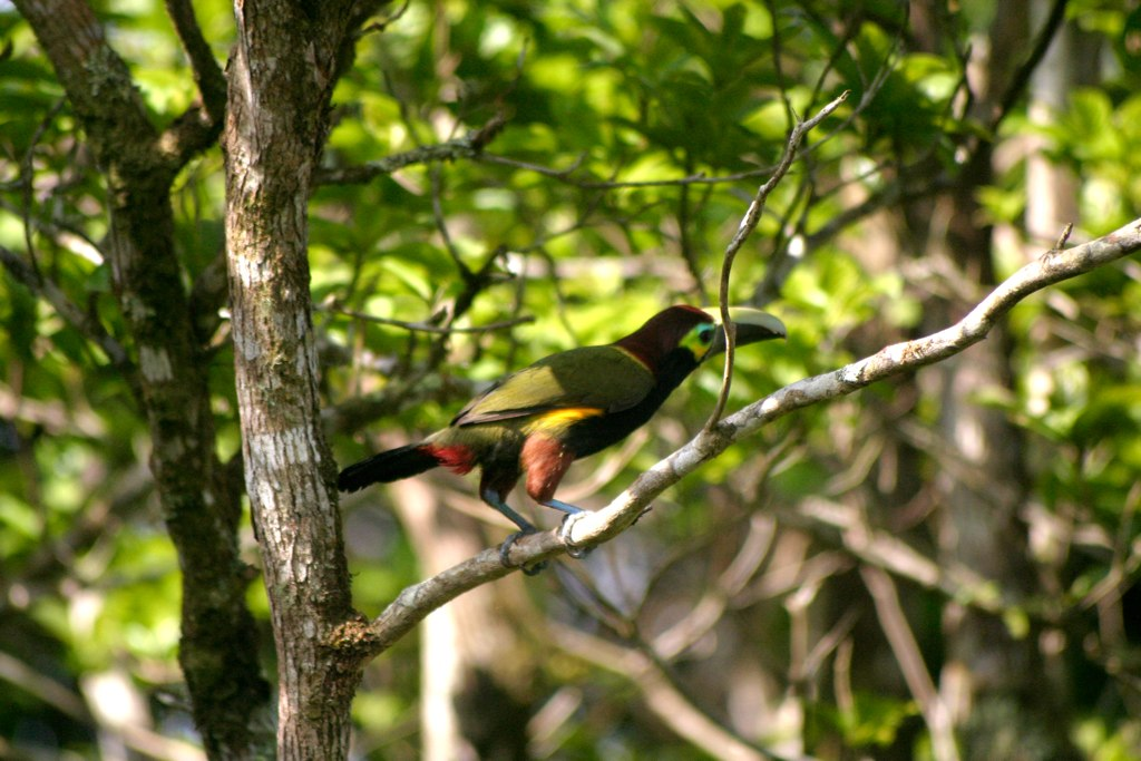 A female Yellow-eared Toucanet in Panama.